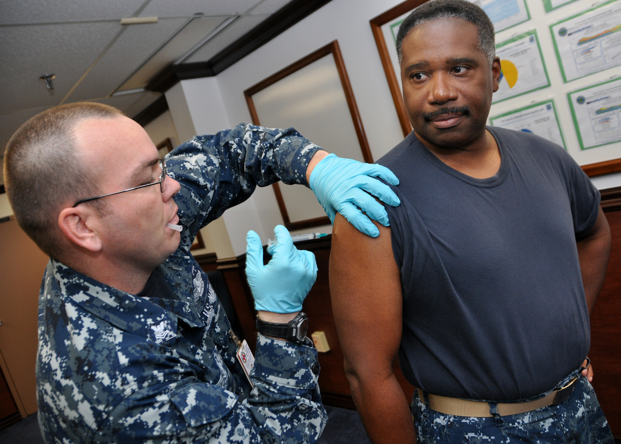 Petty Officer 2nd Class Clint Messerschmidt, a hospital corpsman, administers the H1N1 flu vaccination to Capt. Kirk Hibbert, commanding officer of Naval Station Guantanamo Bay, Cuba.